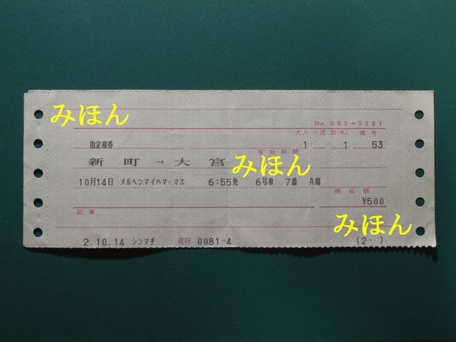 Reserved seat ticket of the Express Train Märchen Maihama issued by MARS type 105